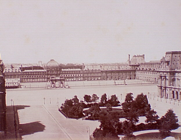 Tuileries Palace. Destroyed by fire in 1871.